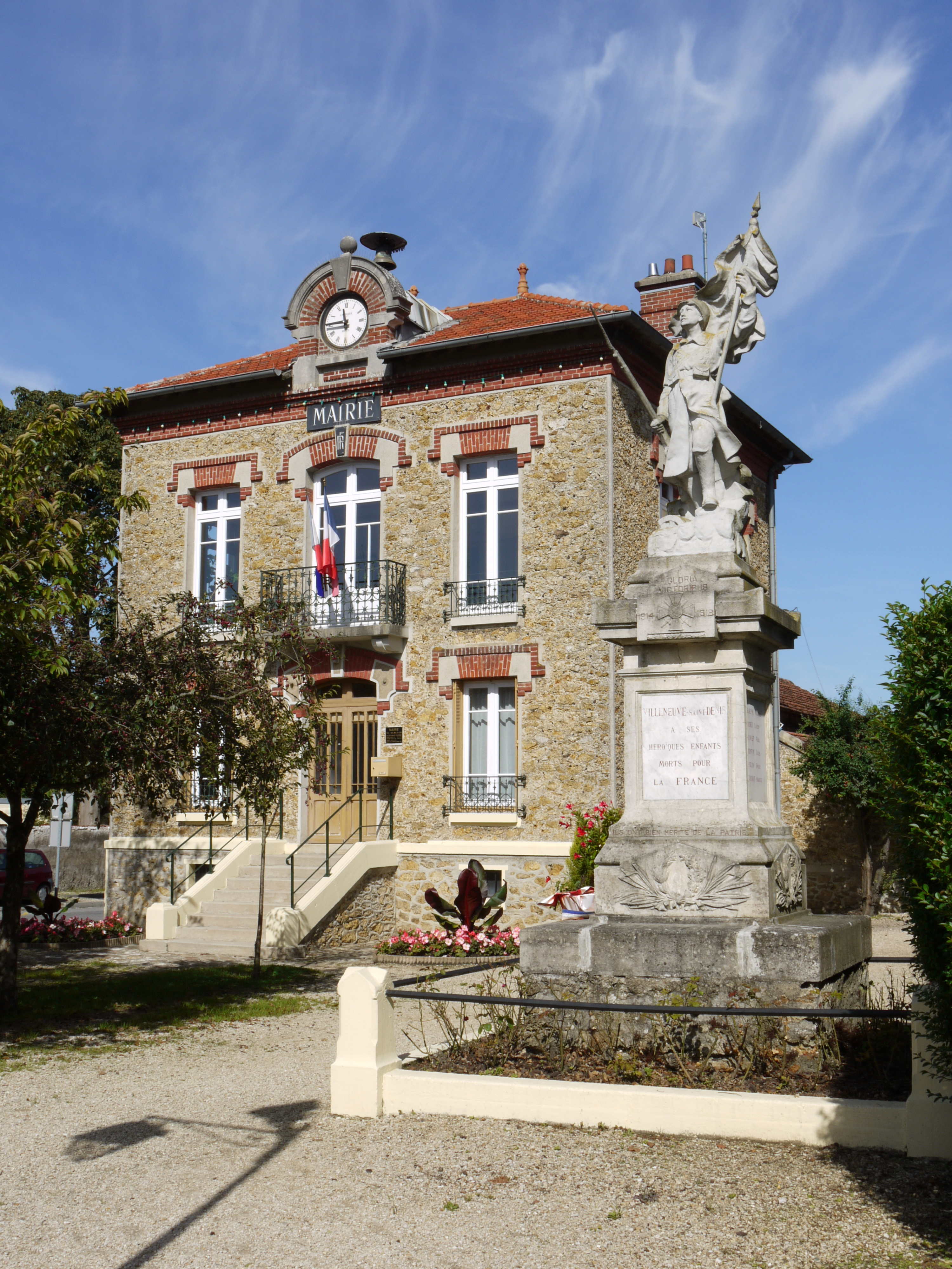 Town Hall of Villeneuve_Saint-Denis, Seine et Marne, Ile de France